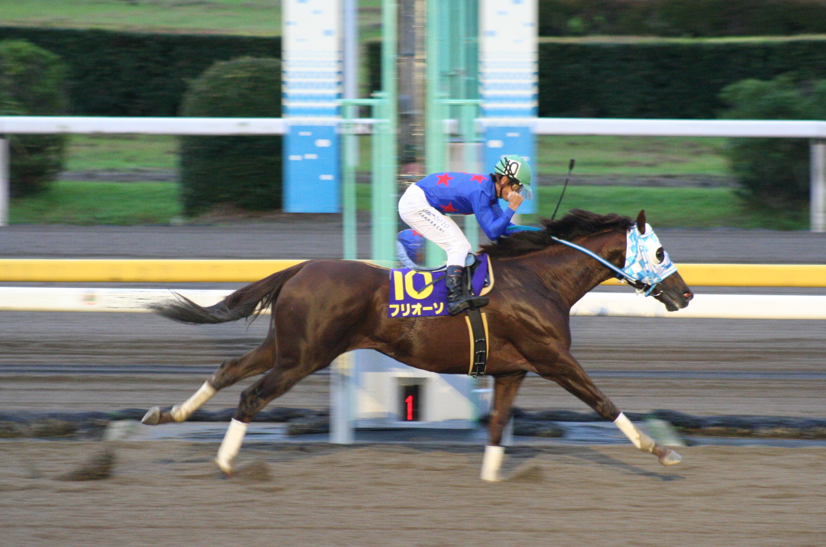 Furioso